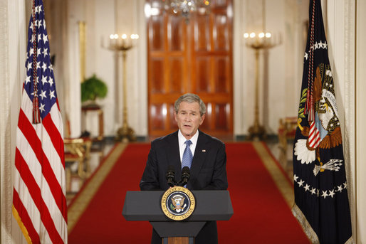 President George W. Bush delivers his farewell address to the nation Thursday evening, Jan. 15, 2009, from the East Room of the White House, thanking the American people for their support and trust.